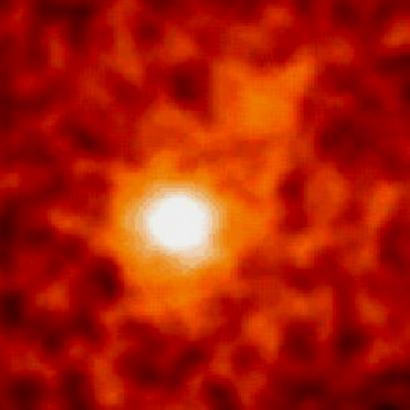 Image in gamma rays of the quasar 3C 279